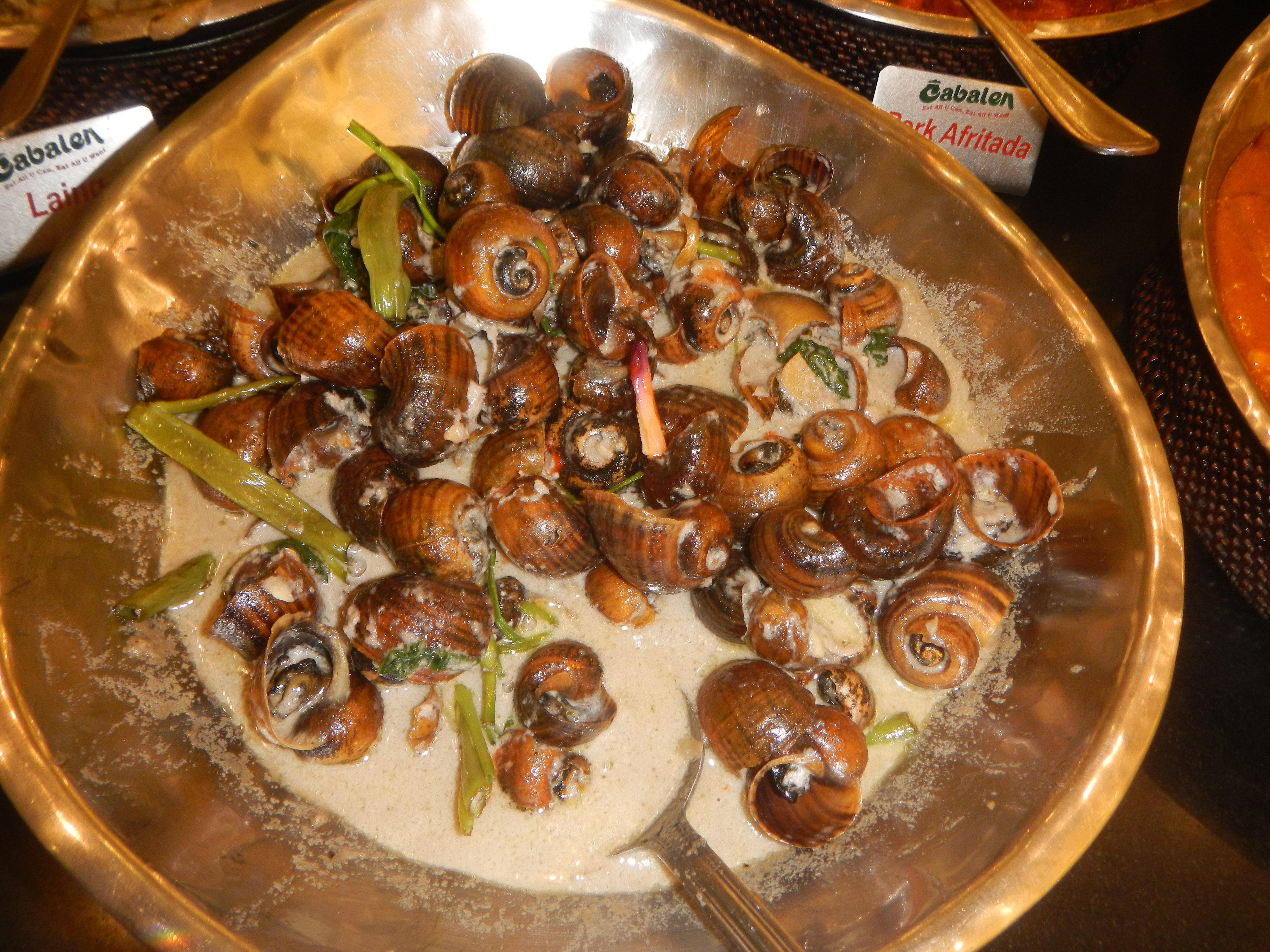 Buffet All-you-can-eat (AYCE) Cabalen List of Philippine restaurant chains Cabalen food products in the Philippines in SM City Baliuag Barangay Pagala 14°58'14"N 120°53'26"E Baliuag, Bulacan, Bulacan province (accessed from Cagayan Valley Road, Baliuag-Pulilan-Guiguinto, Bulacan) Pan-Philippine Highway, also known as the Maharlika "Nobility/freeman" Highway or Asian Highway 26, Cagayan Valley Road (Note: Judge Florentino Floro, the owner, to repeat, Donor Florentino Floro of all these photos hereby donate gratuitously, freely and unconditionally all these photos to and for Wikimedia Commons, exclusively, for public use of the public domain, and again without any condition whatsoever).